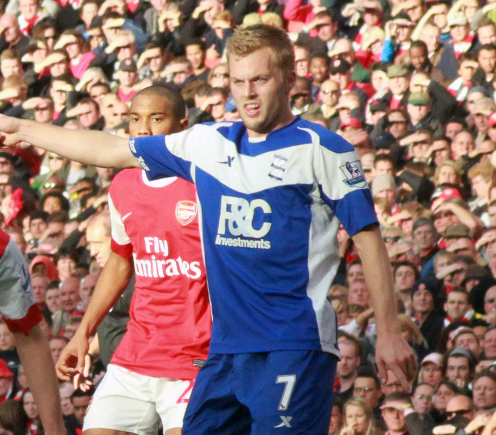 Arsenal v Birmingham City The Emirates 16 October 2010 (2-1)